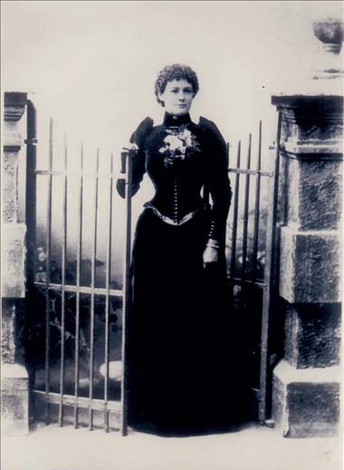 Martha Needle c1880s